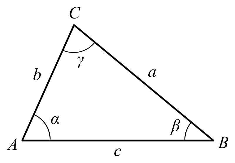 Triangle notations